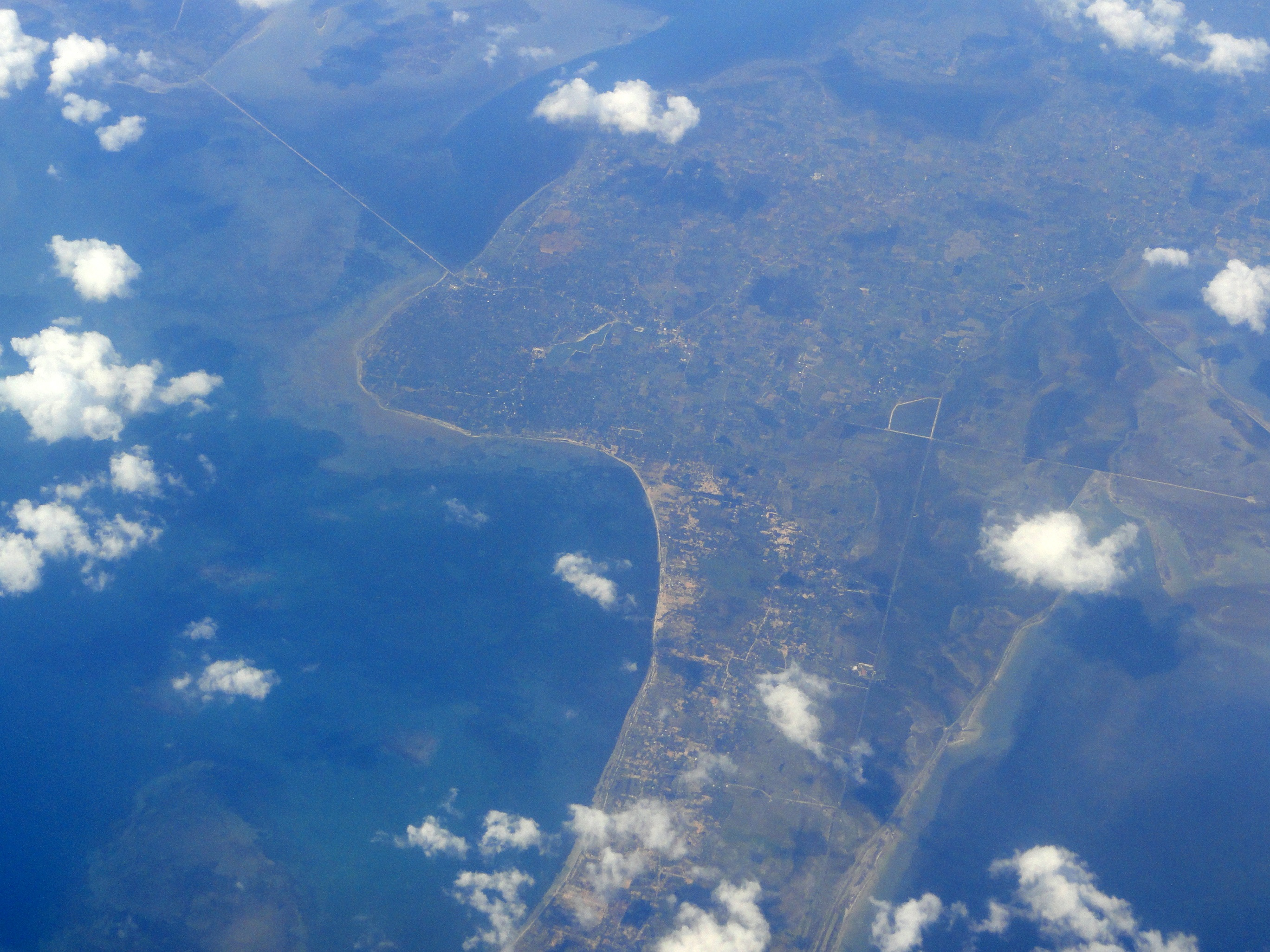 Velanai Island, Jaffna District, Sri Lanka. Looking south-west.